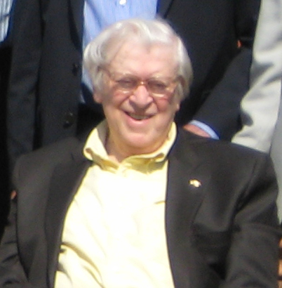 The English television writer and producer David Croft (centre) with his co-writer Jimmy Perry, as well as actors from the TV series Dad's Army, Hi-de-Hi, It Ain't Half Hot Mum and You Rang M'Lord? during a Dad's Army celebration at Bressingham Steam Museum in Norfolk, May 2011.